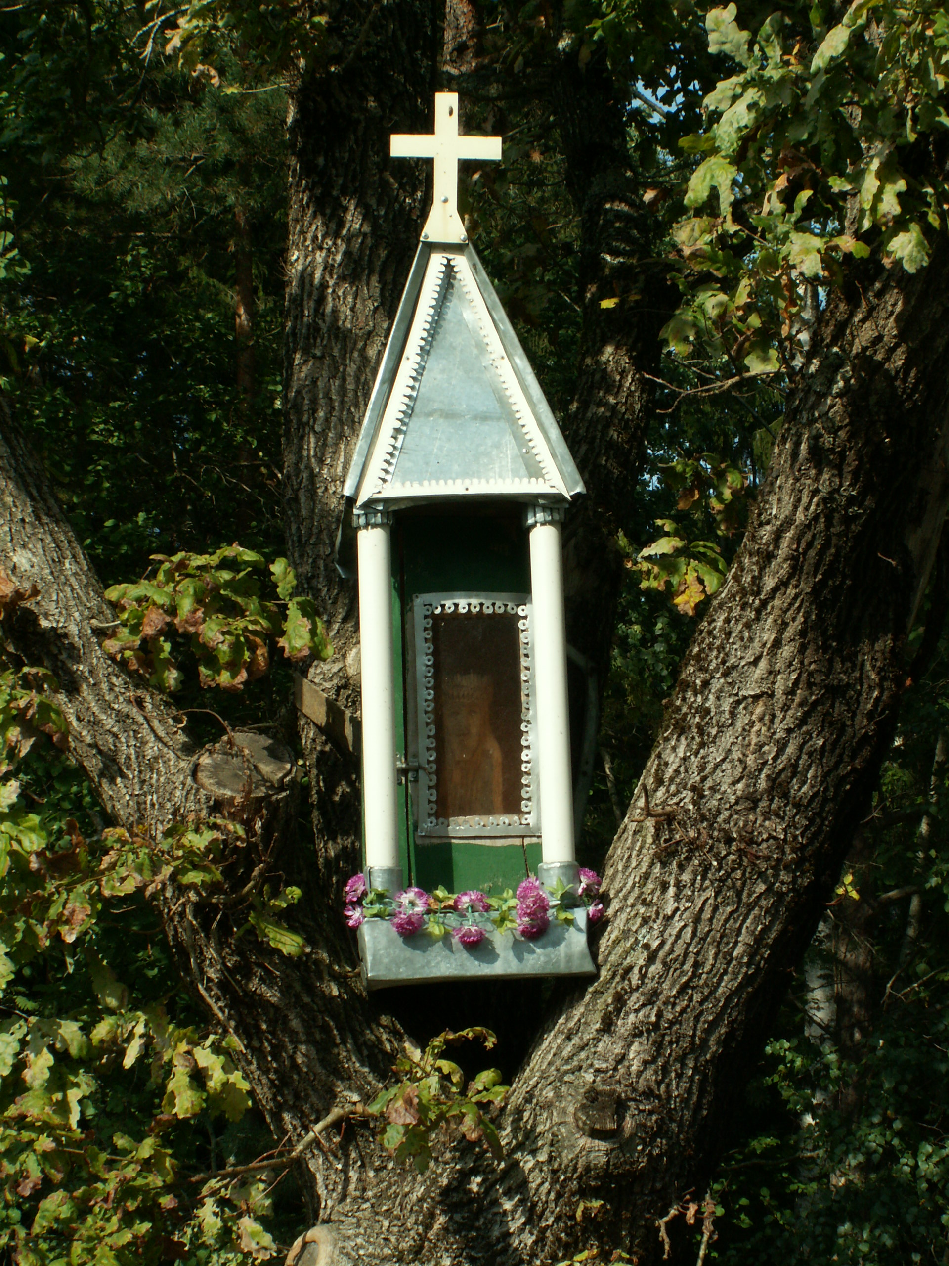 Voveraičiai chapel, Kretinga district, LithuaniaLietuvių: Voveraičių koplytėlė medyje su Rūpintojėlio skulptūra, Kretingos rajonas, Lietuva